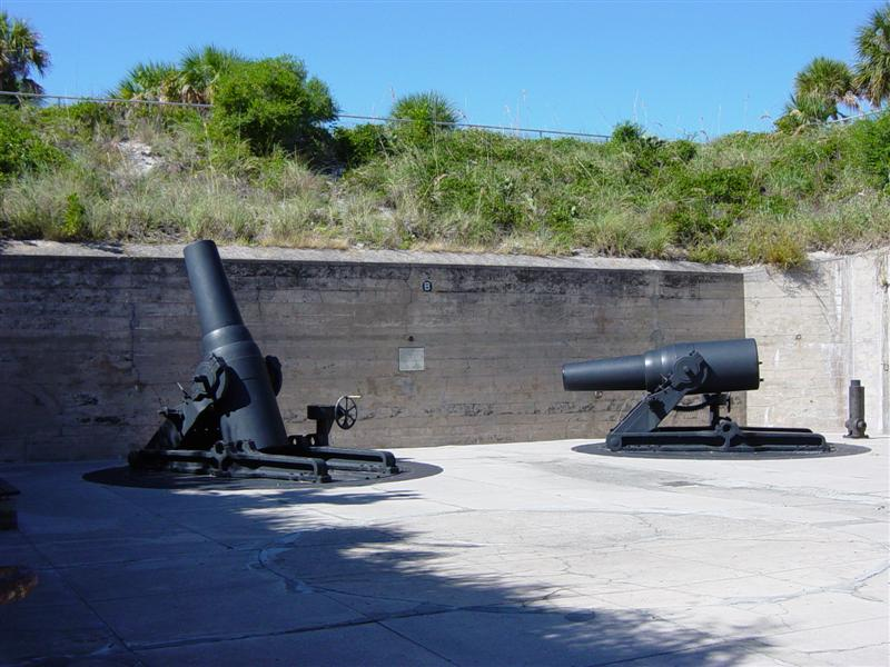 12-inch M1890-M1 mortars at Fort Desoto, Mullet Key, Florida November 7, 2002